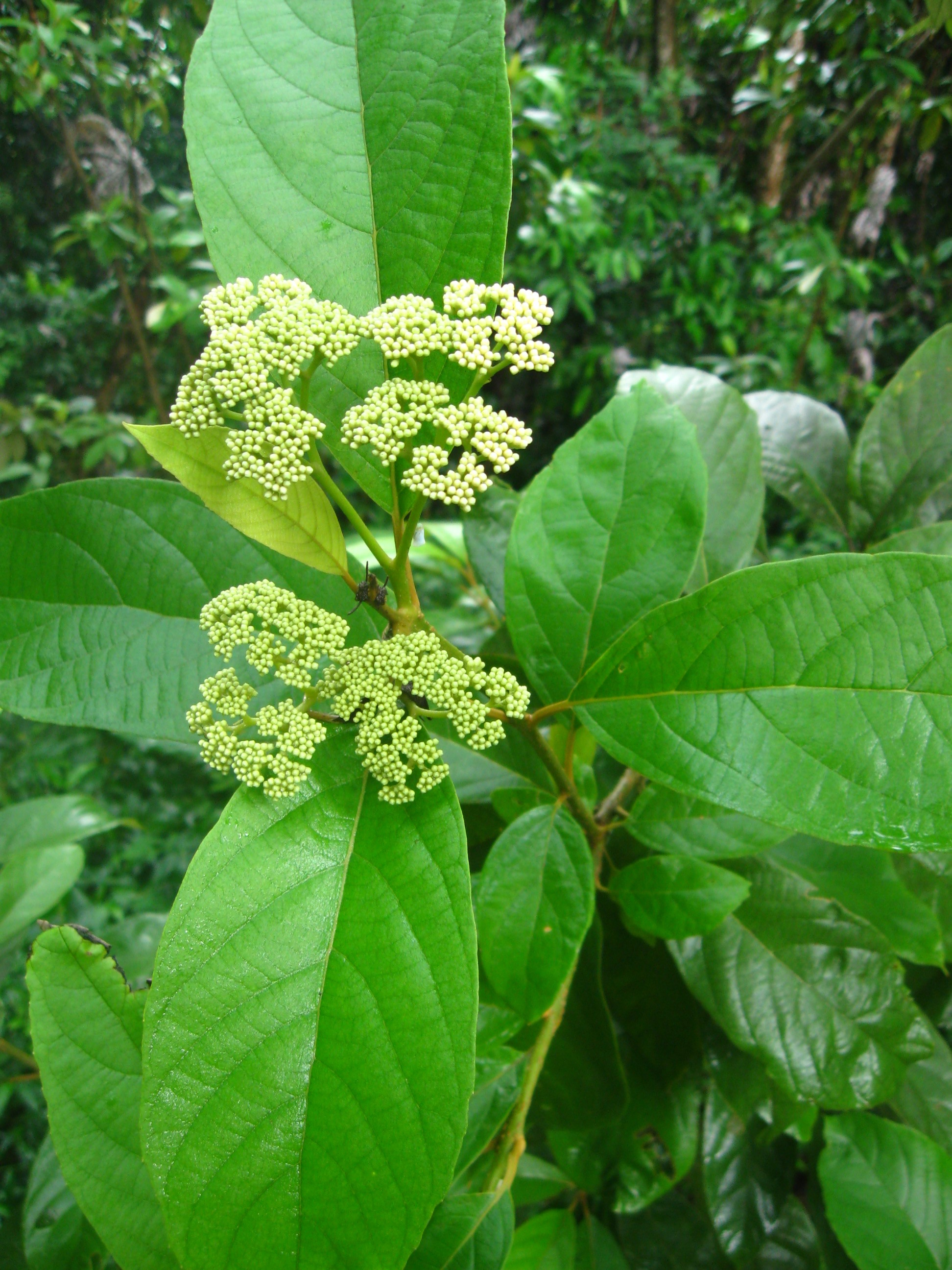 Callicarpa ampla common name: Capá rosa status: Endangered listed on 4/22/1992 Photo by Omar Monsegur